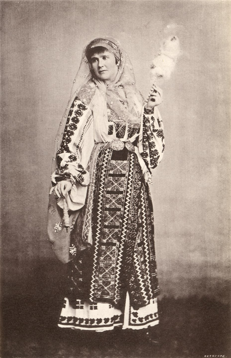 Franz Duschek - H. M. Pauline Elizabeth First Queen of Roumania in the National Costume from a photograph by Franz Duschek, Roumania Past and Present by James Samuelson, George Philip & Son, London, 1882.